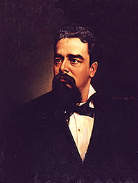 Portrait of Campos Salles